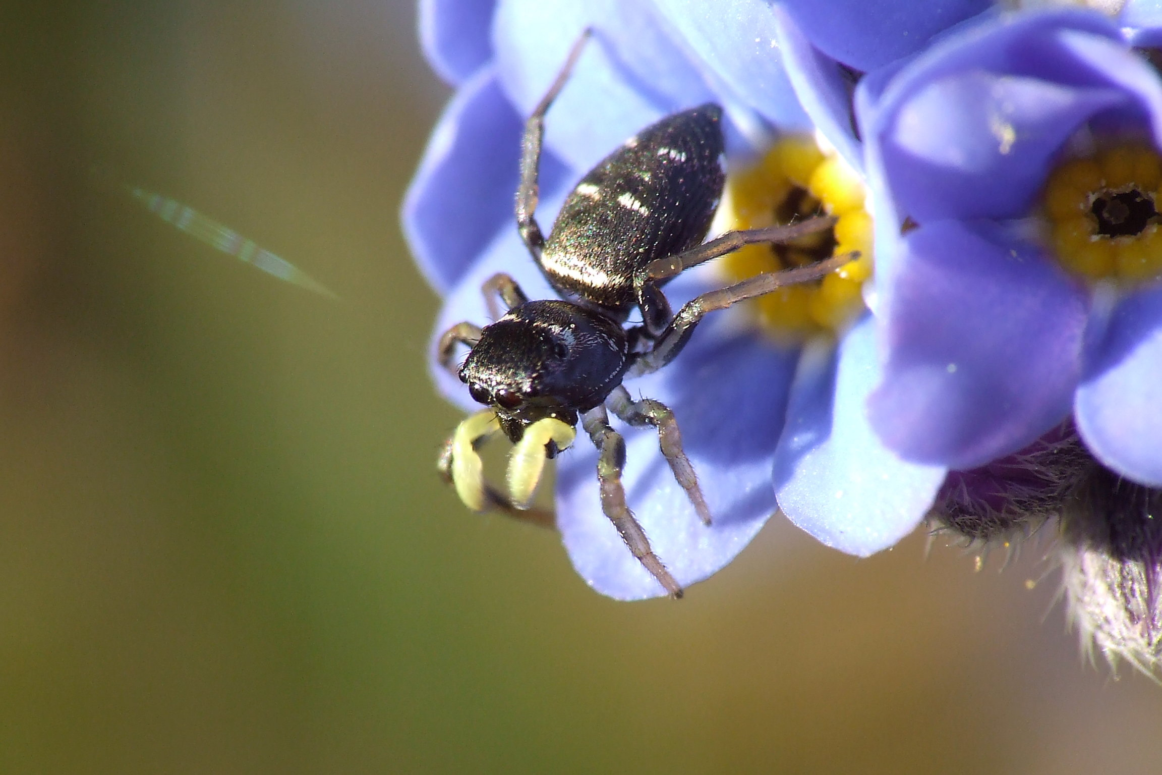 Female jumping spider, Heliophanus cupreus, on a forget-me-not flower.